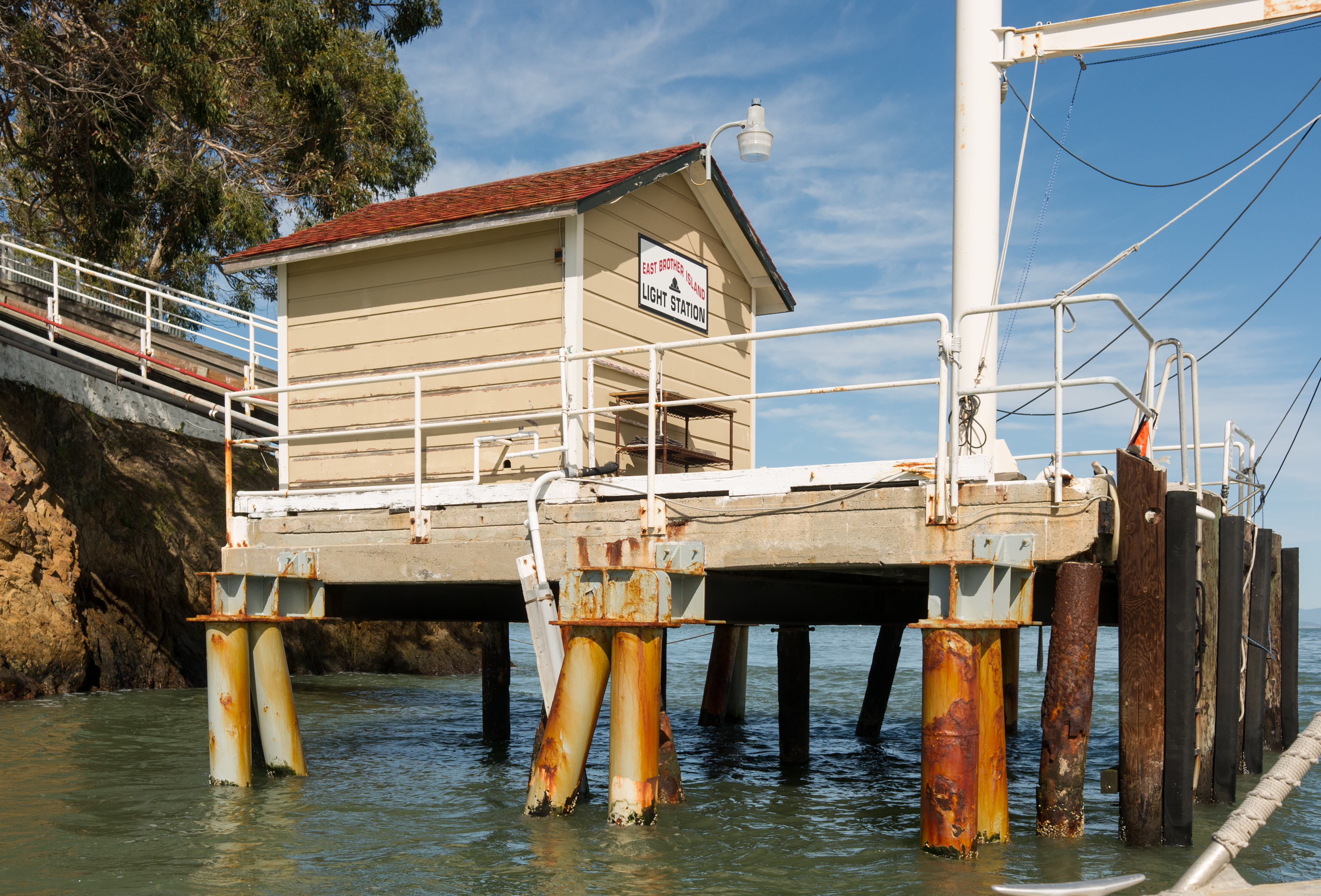 East Brother Light, wharf.